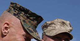 8-point utility covers in woodland and desert Marpat (as part of the MCCUU), M81 Woodland, and Navy Working Uniform.